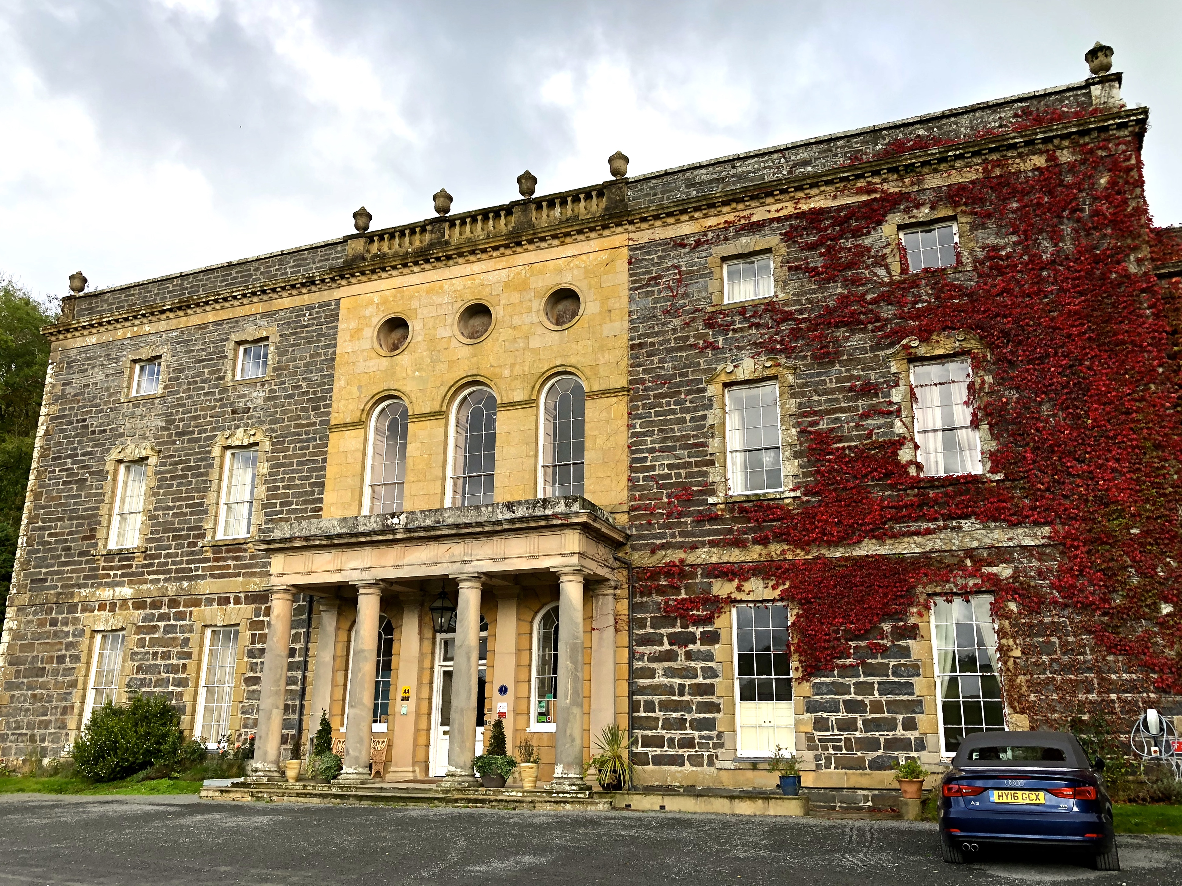 Staying at Nanteos for Lewis Pugh Evans's Memorial Service